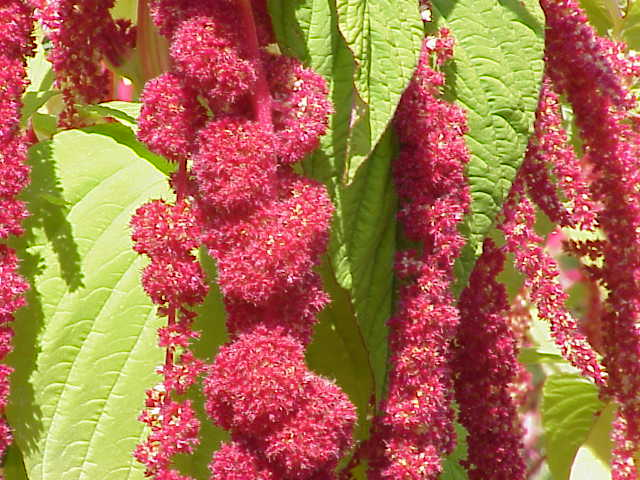 Species: Amaranthus caudatus Family: Amaranthaceae Image No. 1